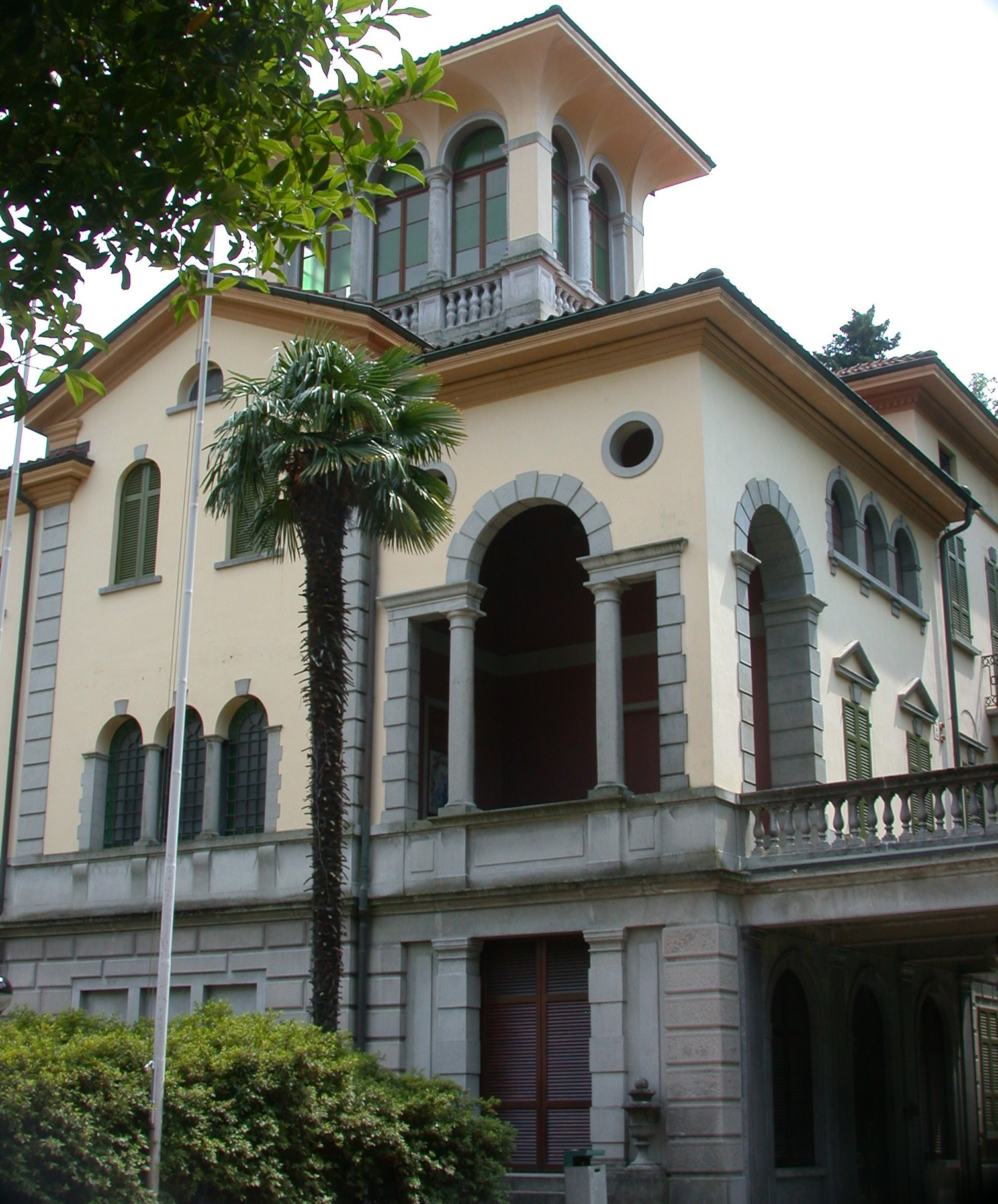 The Villa Cedri - Museum of Bellinzona